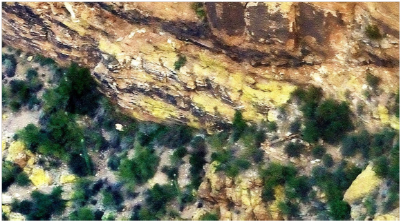 Likely the Lost Dutchman Mine near the Peralta battle ground.